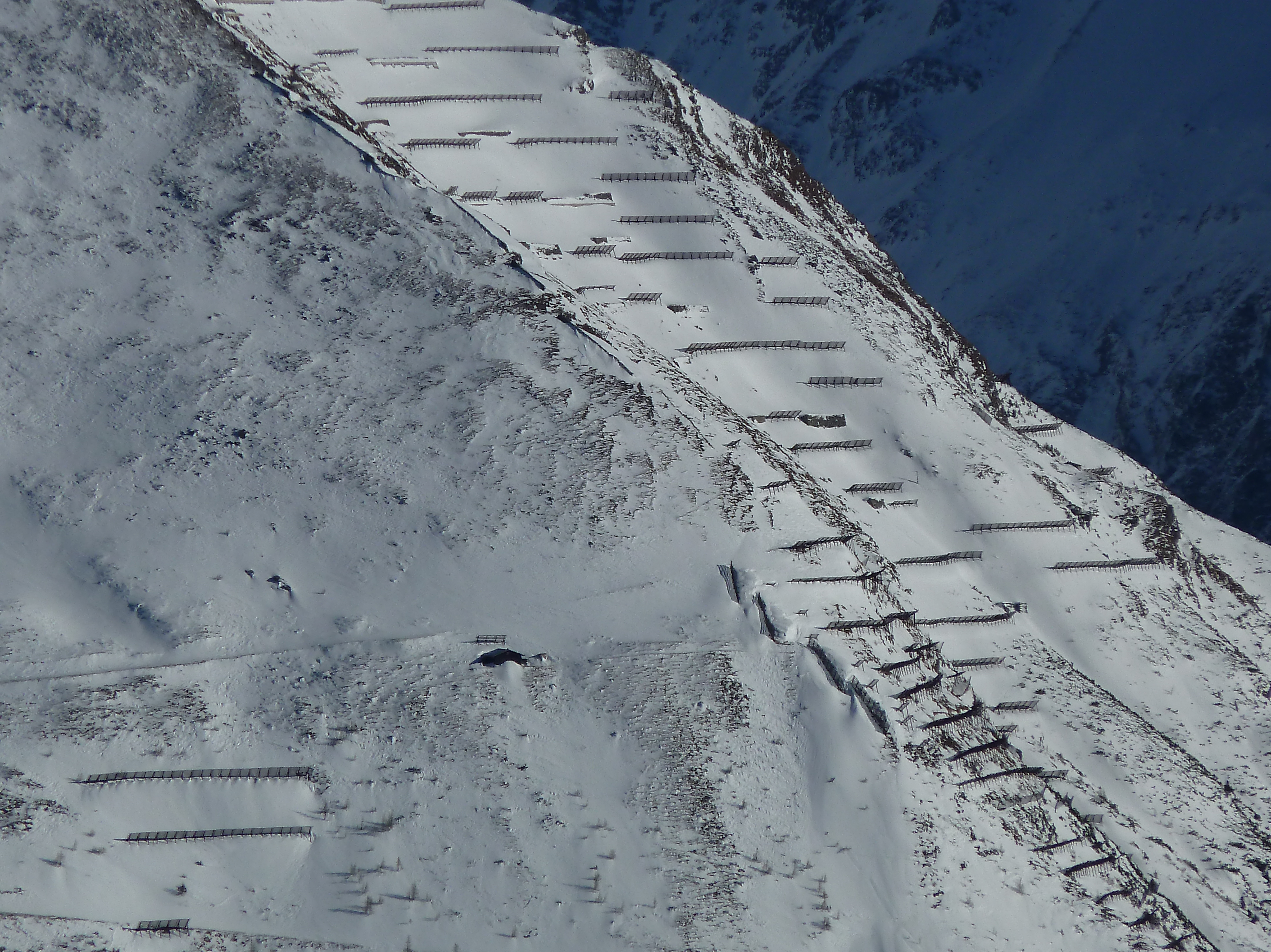 Snow fences for the purpose of protection against avalanches above Bad Gastein.